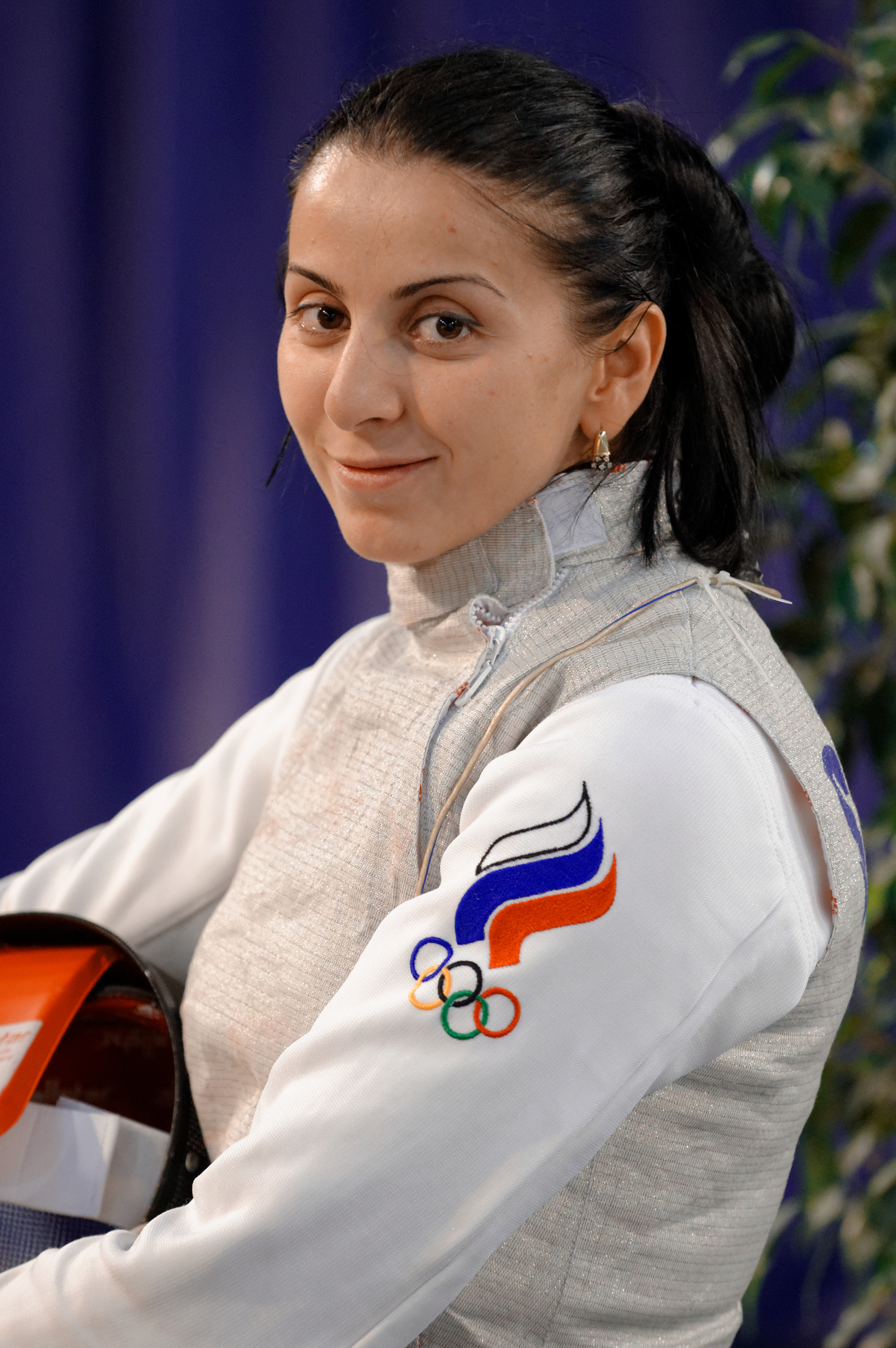 Russia's Aida Shanayeva at the Saint-Maur Women's Foil World Cup.